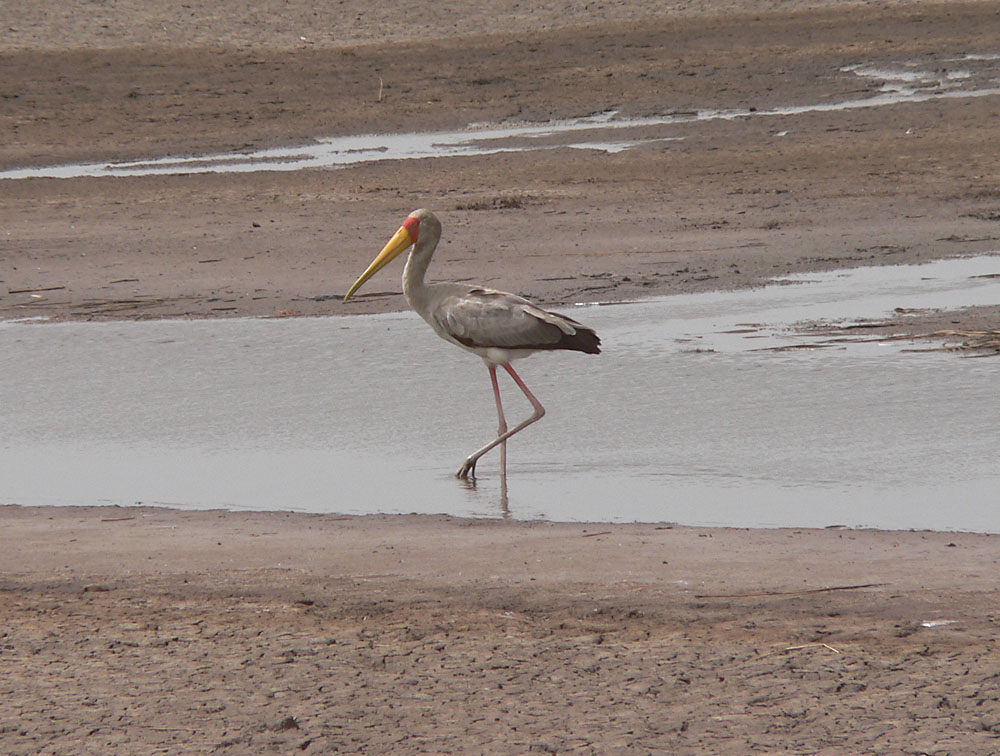 Mycteria ibis This photo was taken by Christiaan Kooyman on 2 July 2005 near Kerewan, The Gambia.